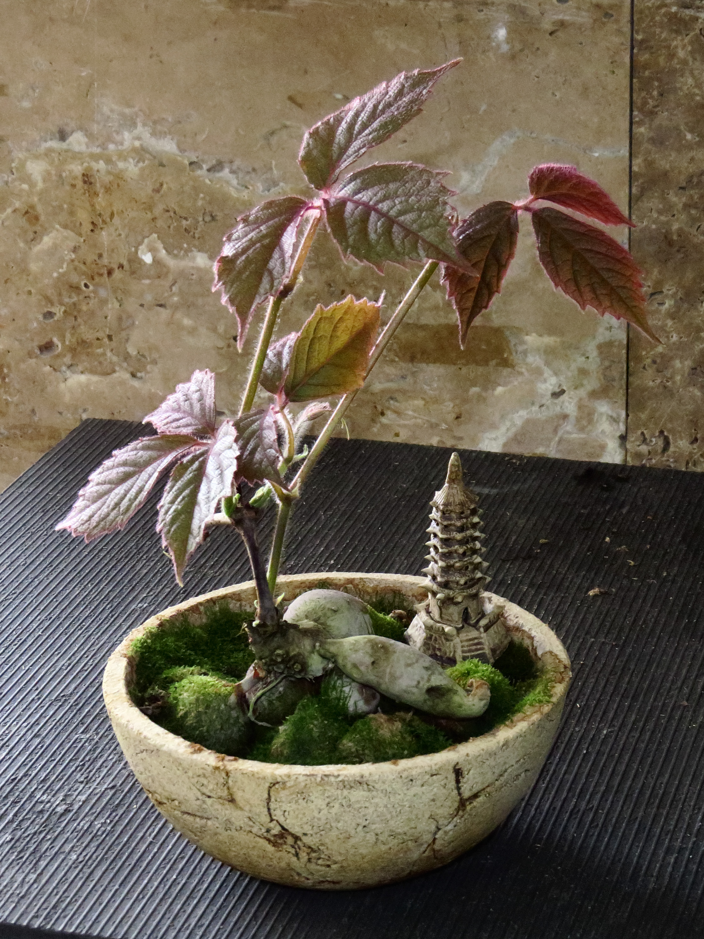 Bonsai exhibition in Grishko botanical garden, Kiev, Ukraine. Cyphostemma adenopodum, age: 7 years, height: 35 cm, bonsai style: free.